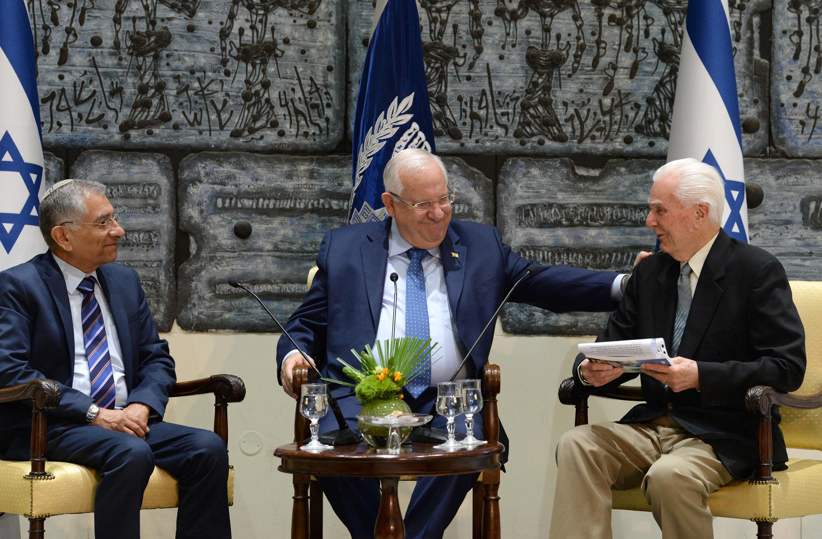 the President of Israel, Reuven Rivlin, meeting with the 90-year-old navigator who took part in Operation Magic Carpet to raise the Yemenite Jews Sunday, March 11, 2018. Photo Credit: Mark Neyman / GPO.